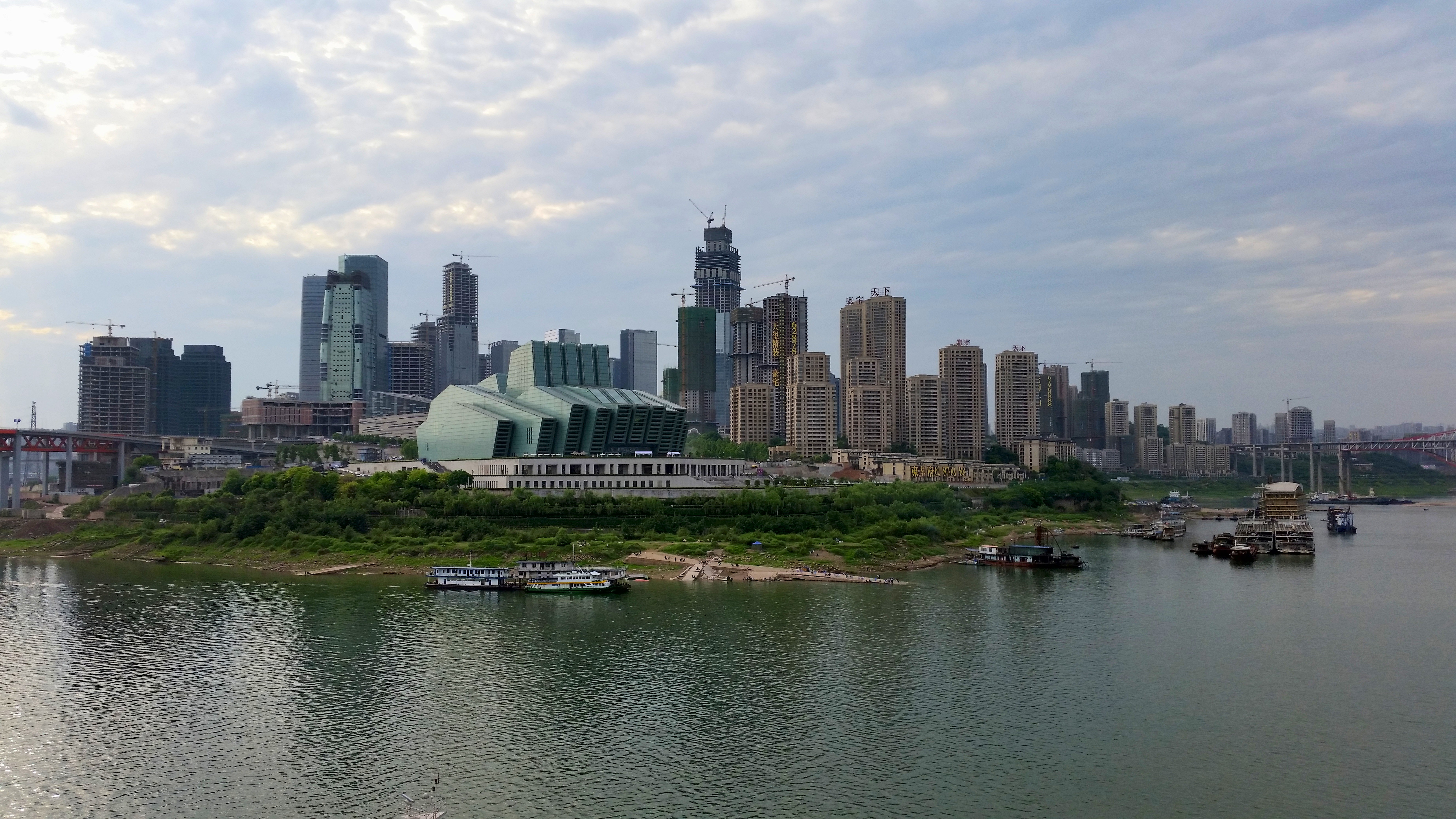 Chongqing from Chaotianmen - View of the Jialing river and the Chang Jiang (Yangtse; on the right) - In front Chongqing Grand Theatre.